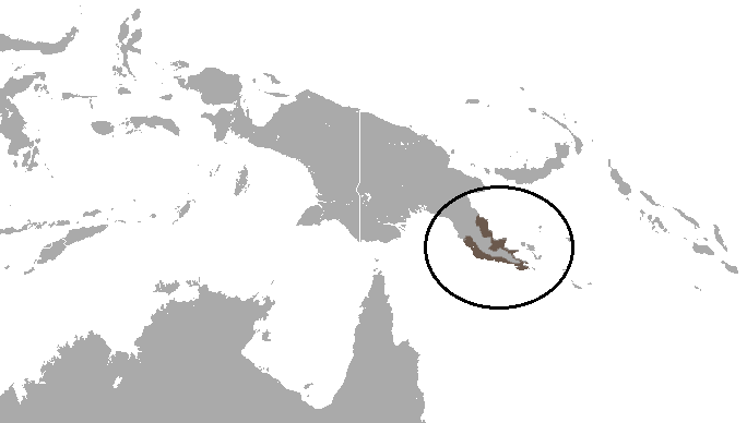 Giant Bandicoot (Peroryctes broadbenti) range